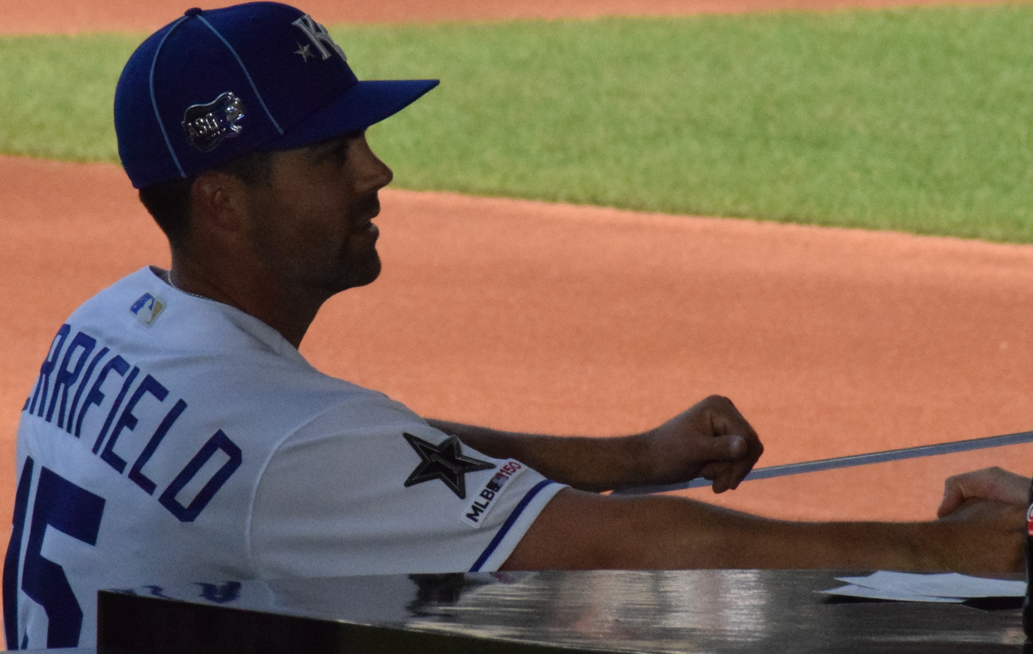 Kansas City Royals player